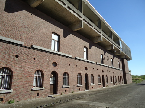 Lower part - Brickstone casemates (19th century)